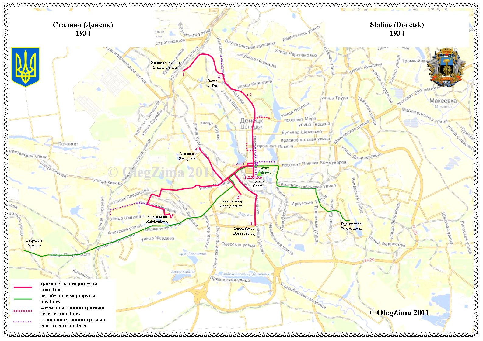 Transport map of Donetsk city at 1934